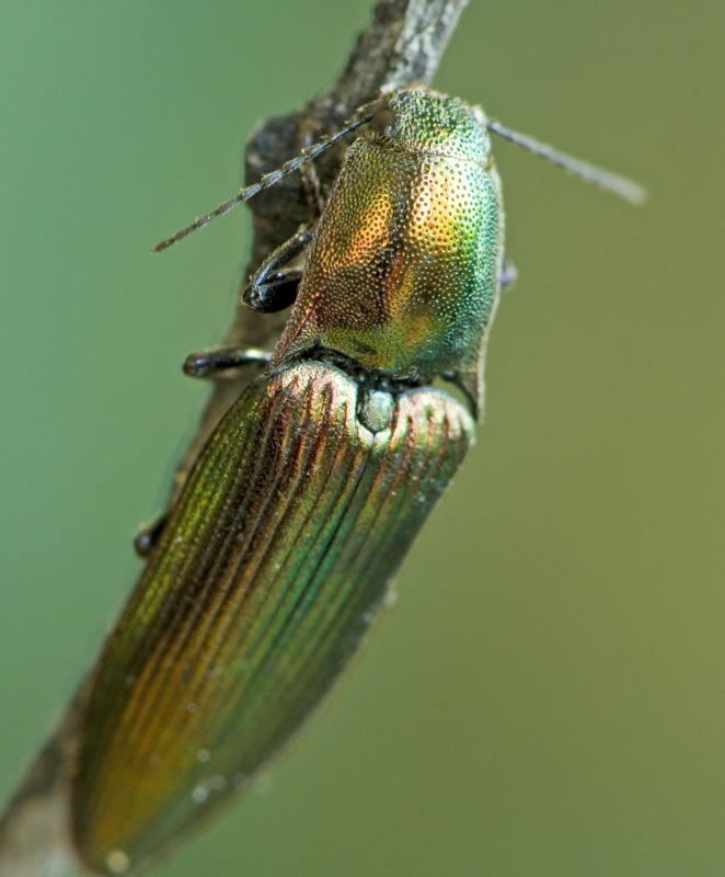 Gorgeous click beetle.